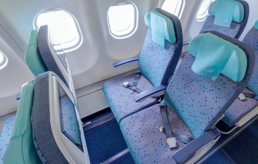 Philippine Airlines economy in the newly-reconfigured Airbus A330-300 in Tri-class configuration